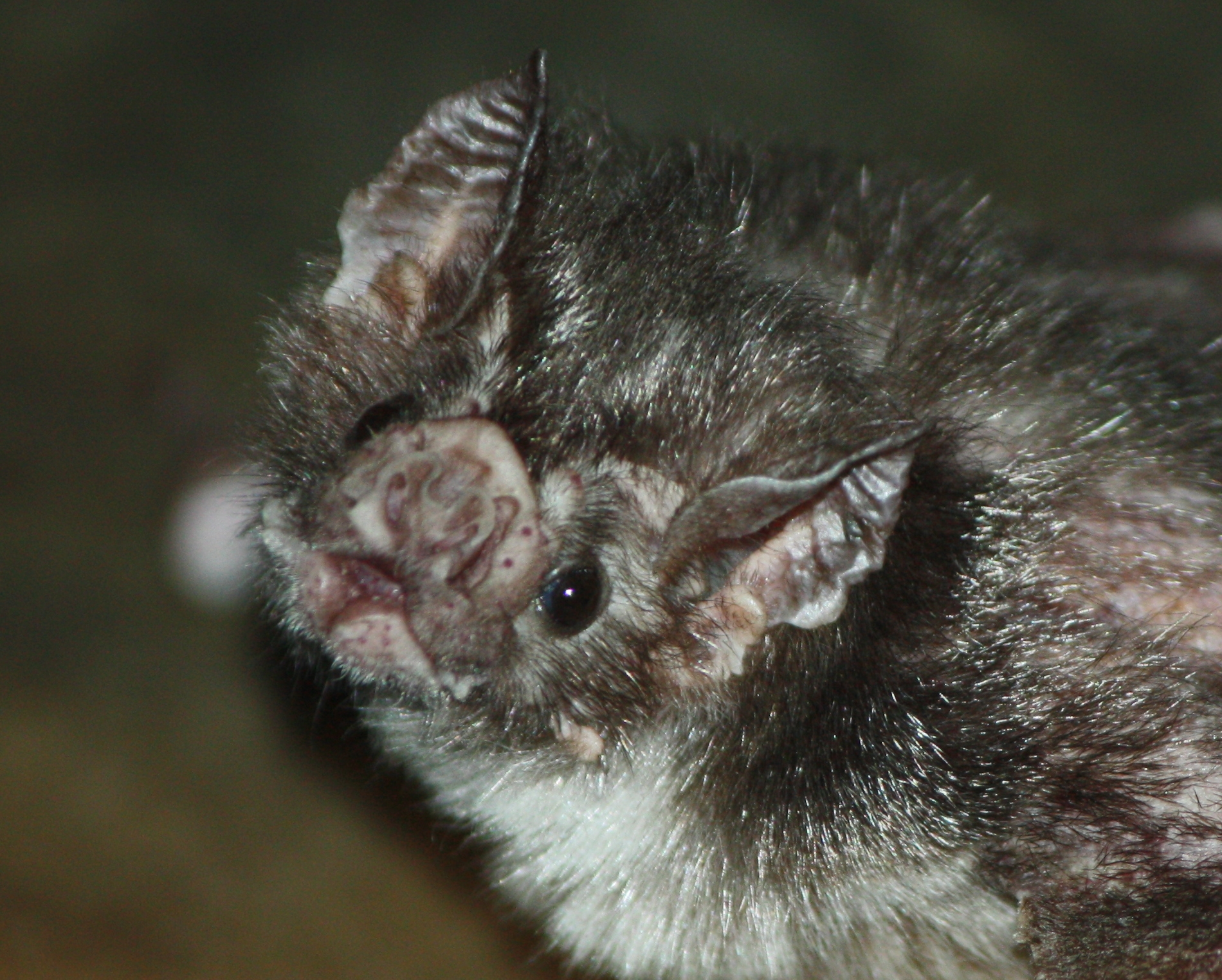 Vampire Bat Desmodus rotundus at the Louisville Zoo